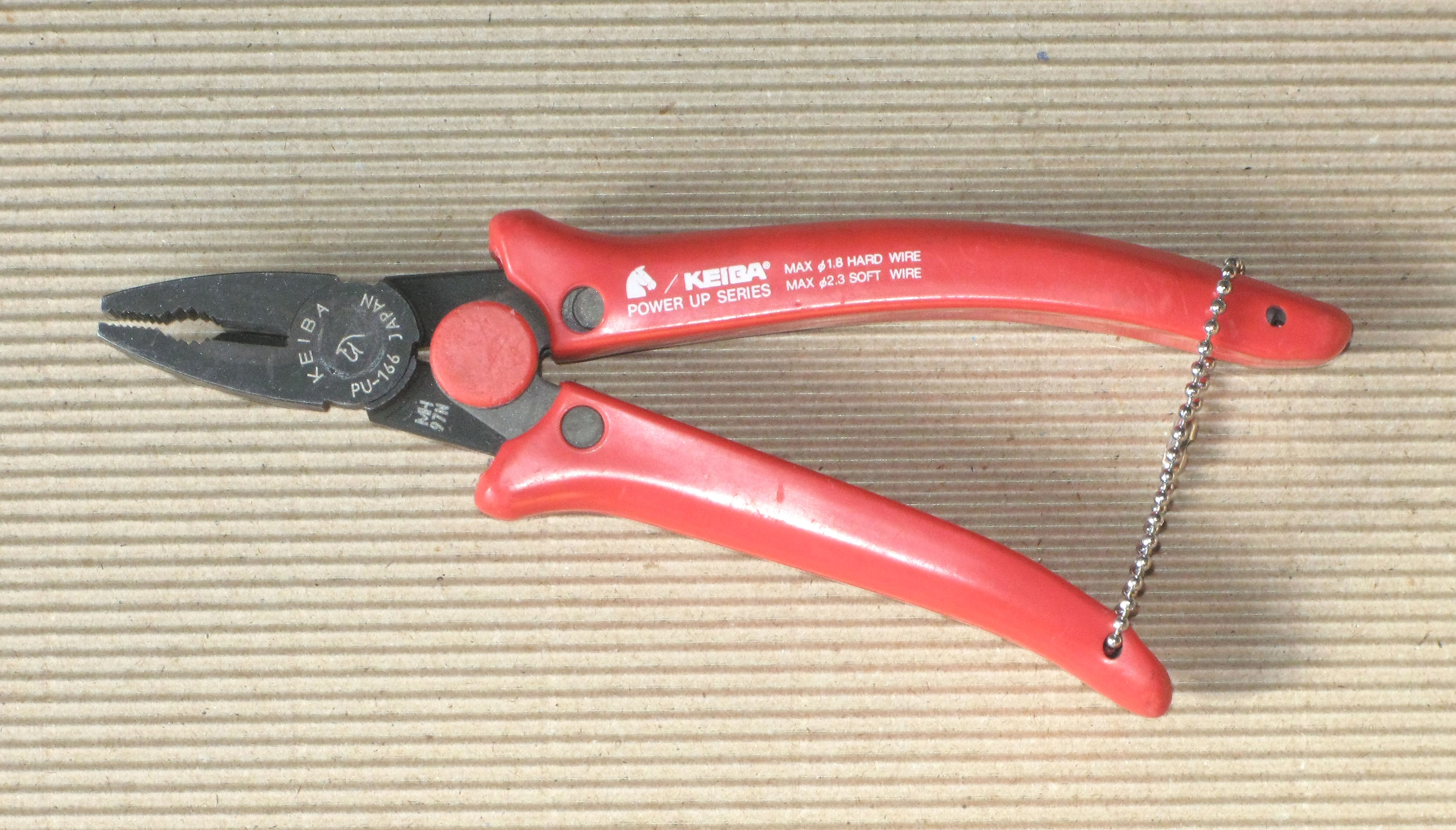 KEIBA brand made in japan.